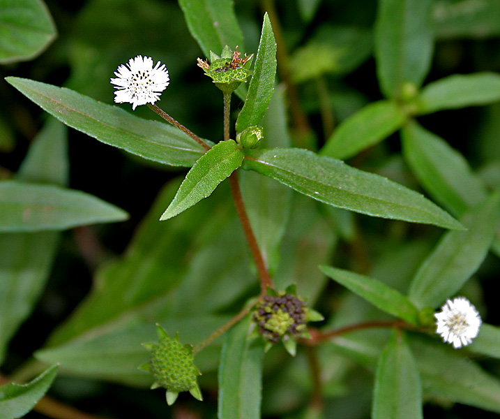 Eclipta prostrata (L.) L. (syn. E. alba (L.) Hasak., E. erecta L., E. punctata L., Verbesina alba L., V. prostrata L., Cotula alba L.)- Keshut, Maka, False Daisy, Marsh Daisy, yerba de tago, bhangra, Trailing eclipta • Hindi: भ्रिंगराज Bhringaraj, केशराज Kesharaj • Manipuri: Uchi-sumbal • Tamil: கரிசிலாங்கண்ணி Karisilanganni, Kavanthakara • Malayalam: Kannunni • Telugu: Galagara • Kannada: Ajagara • Oriya: Kesarda • Sanskrit: भ्रिंगराज Bhringaraj- in Goa, India.